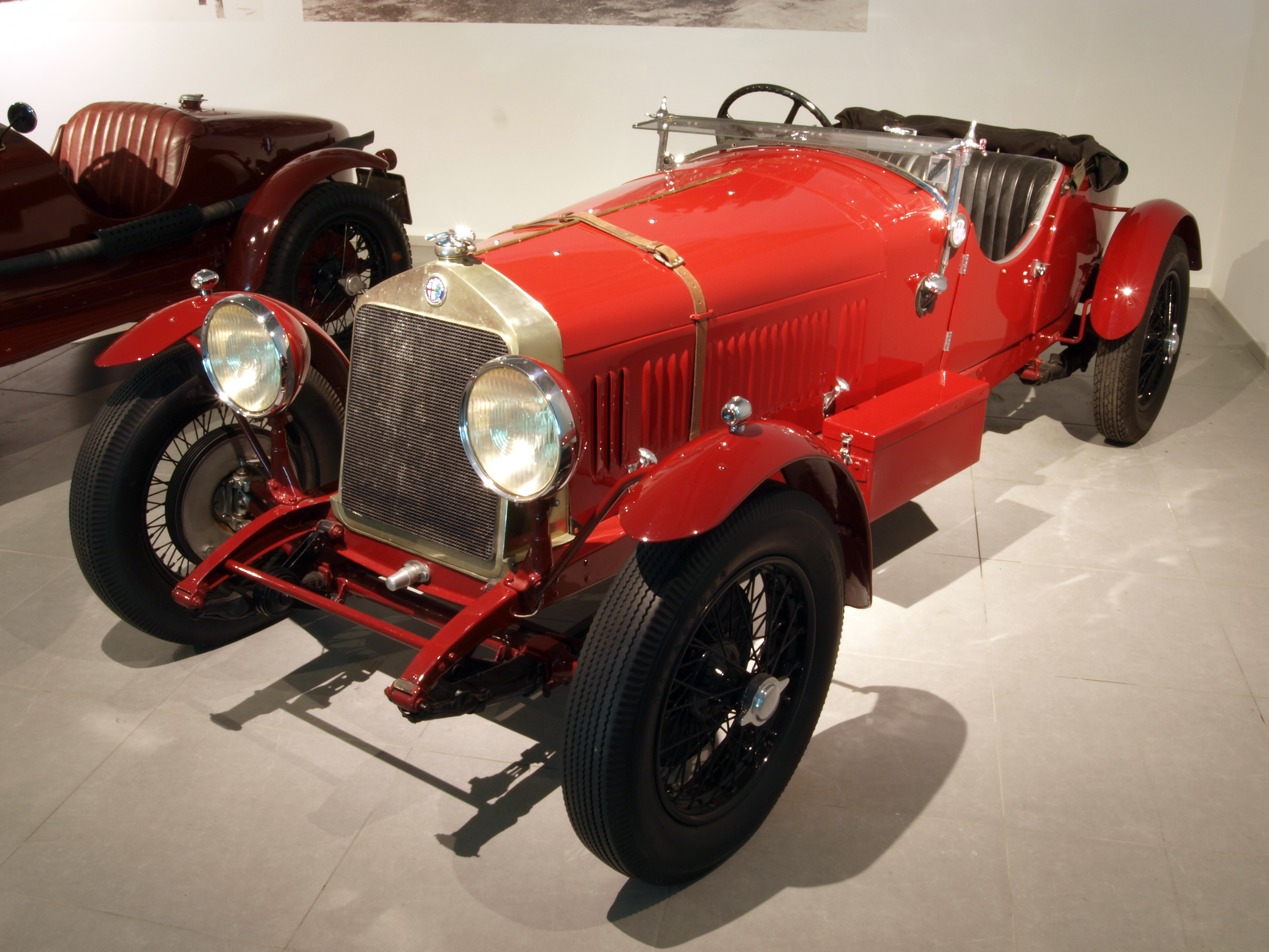 1929 Alfa Romeo 6C 1500 Super Sport (replica Zagato bodywork now, original Zagato, 1933 Freestone & Webb coach)Photographed at the Louwman museum / Louwman Collection, The Netherlands.